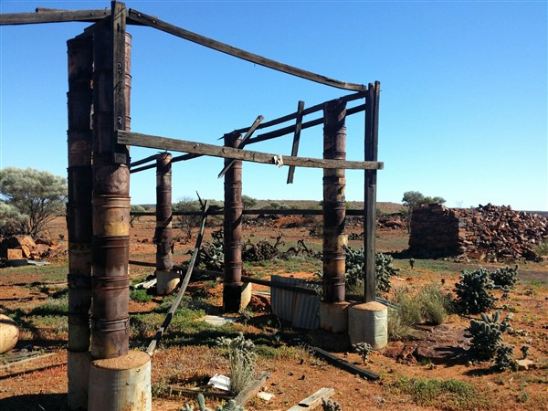 Poverty Flats is where alluvial gold was discovered by Steadman in November, 1891, while he was searching for a wayfarer's lost swag. it became one of the largest gold dry blowing areas in the Murchison.